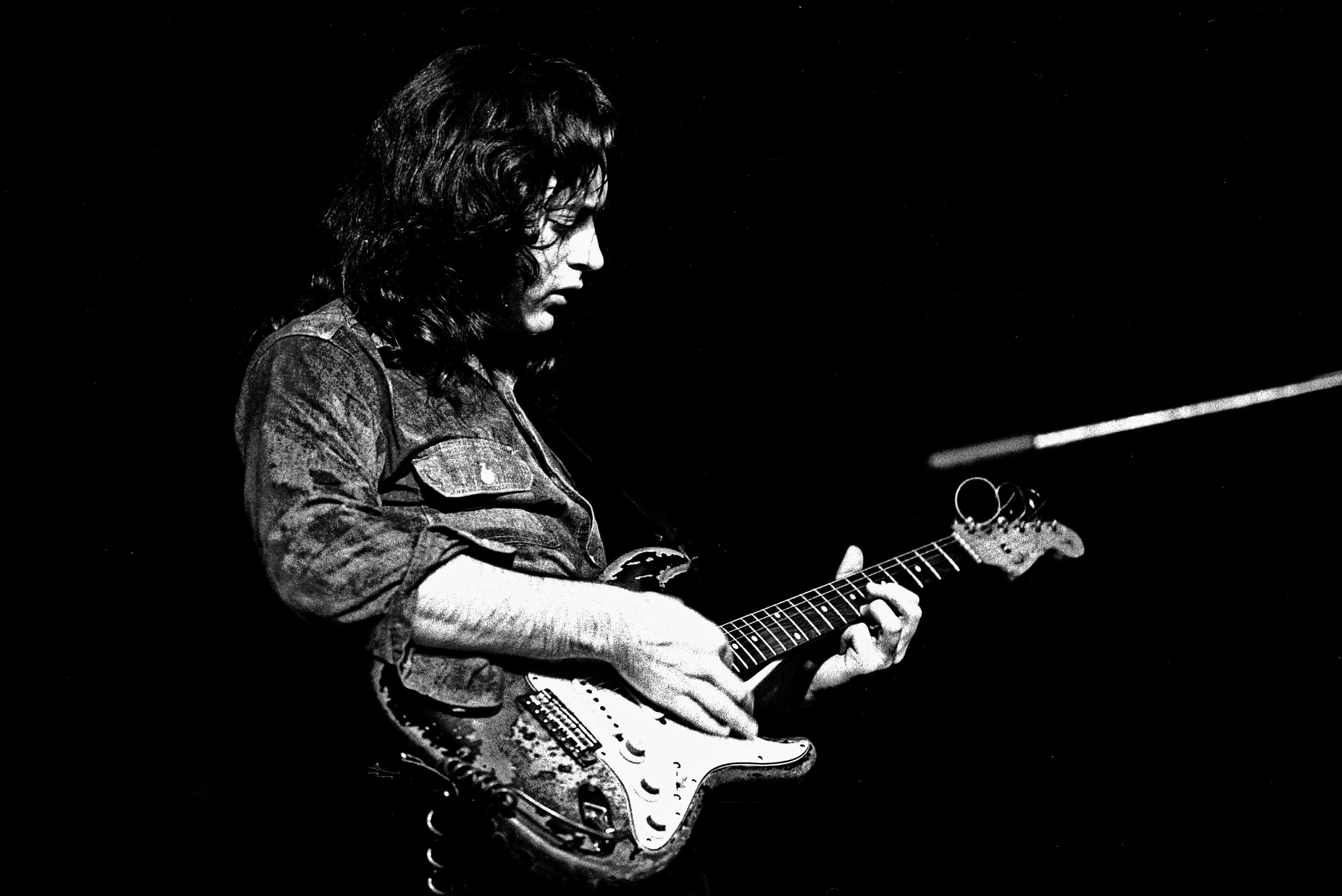 From a fan, for the fans: Some more photos of the Rory Gallagher-Sessions in Hamburg, 1971/1973